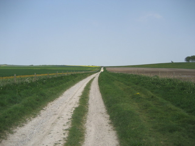 The Herepath on Avebury Down